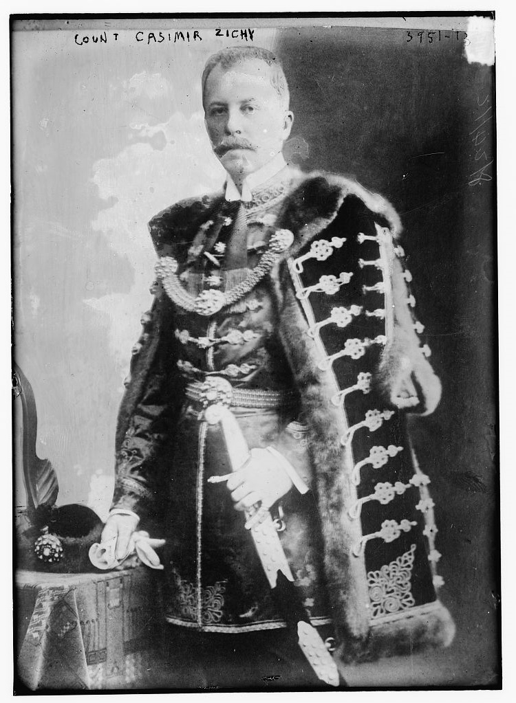 Kázmér Hyppolit Zichy (1868–1955), Earl of Zichyújfalu (Hungary) in 1916